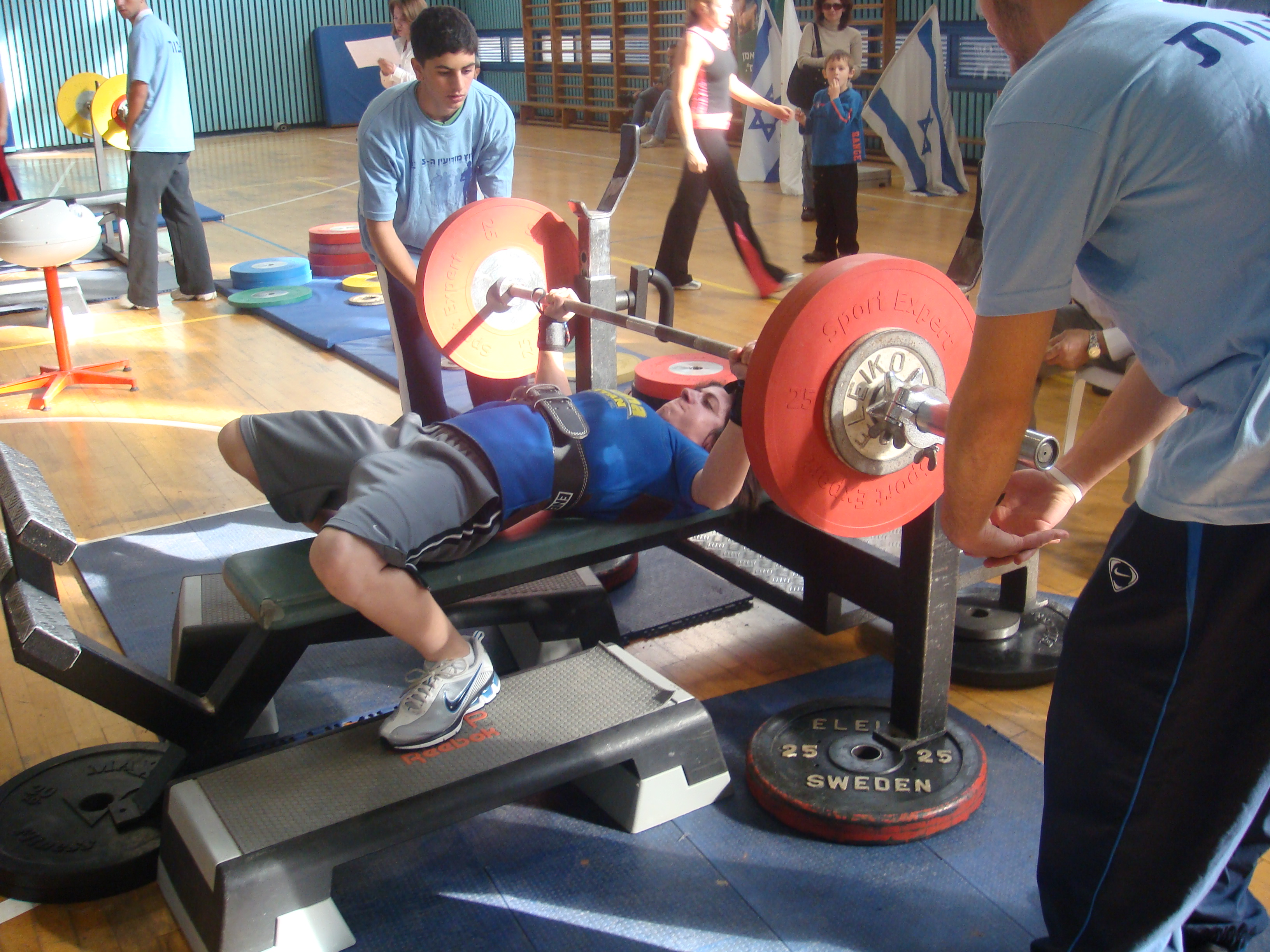 Almog Dayan, IPA's world champion 2007 in "Bench Only" category, performing a bench-press, Israel 2007.